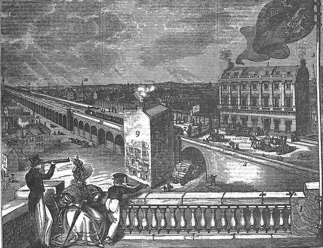 The original London and Greenwich Railway terminus near London Bridge